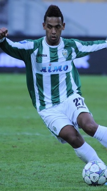 Eric de Oliveira Pereira